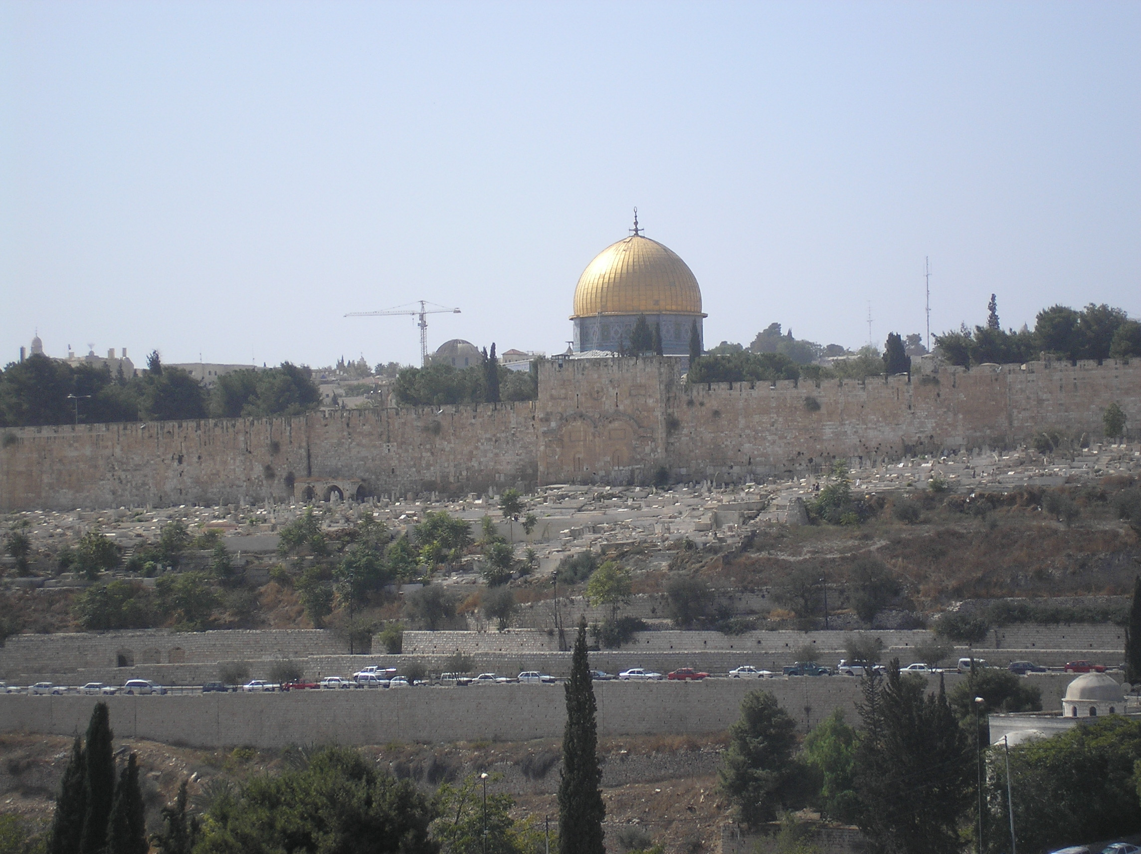 The Golden Gate